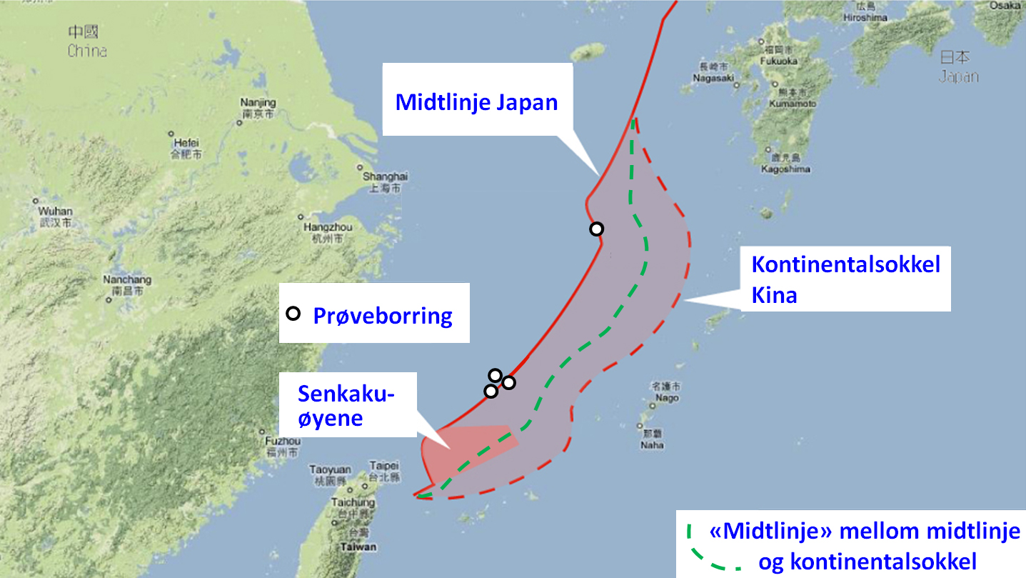 Map in Norwegian of EEZ disputes in East China Sea